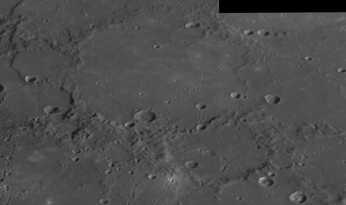 Oblique view of Dali crater on Mercury, from MESSENGER's first flyby. Mosaic of MESSENGER Narrow Angle Camera images, cropped to center Dali. Approximate north is at top. Emission Angle: 55.2-55.5 Incidence Angle: 68.4-73.2 Latitude: 44 Longitude: 240 Phase Angle: 61.9-63.1